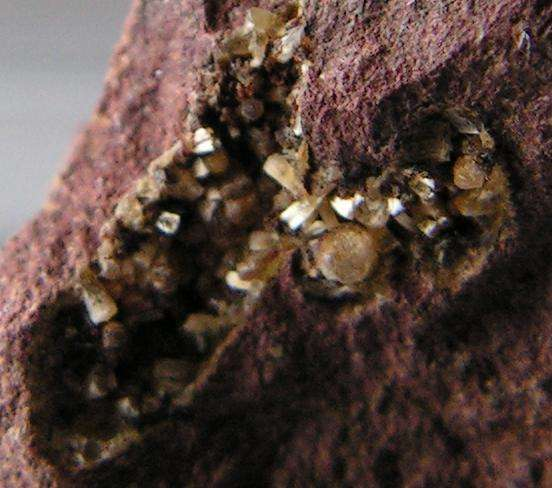 Erionit_Ca_kamieniołom_Boghill,_Glengormley,_Belfast,_Irlandia_Pn; autor zdjęcia Paleonet; 10.12. 2006 r.